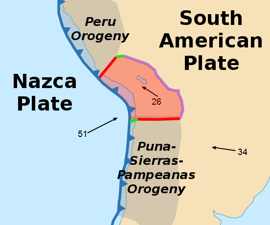 A map of the Altiplano plate